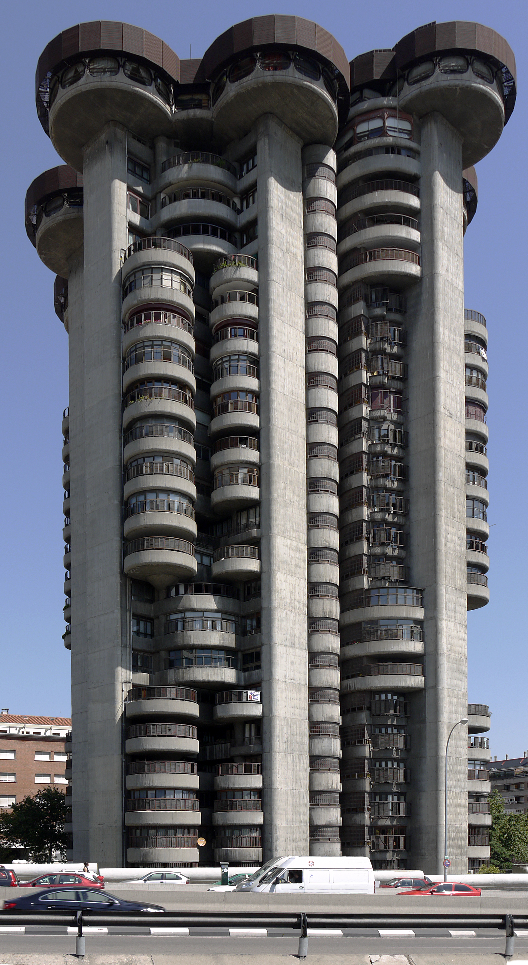 Torres Blancas building (Madrid, Spain, 1964–1969). Architect: Francisco Javier Sáenz de Oiza (1918–2000).